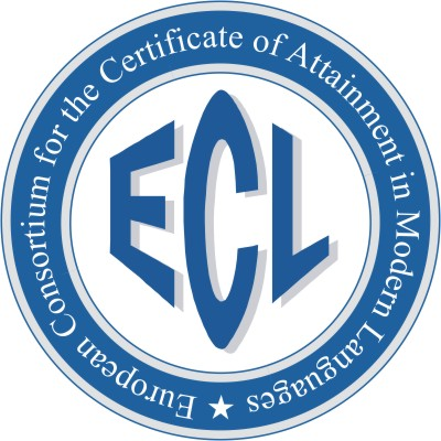 ECL logo